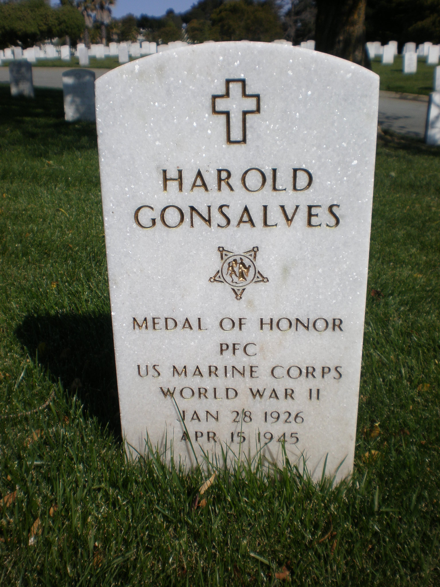 The headstone of PFC Harold Gonsalves, Medal of Honor recipient, in section B of Golden Gate National Cemetery in San Bruno, California.